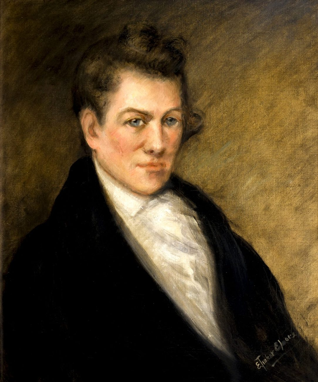 b/w-Photo from a painting of AL Governor Israel Pickens (1780-1827) by ??? (painter)